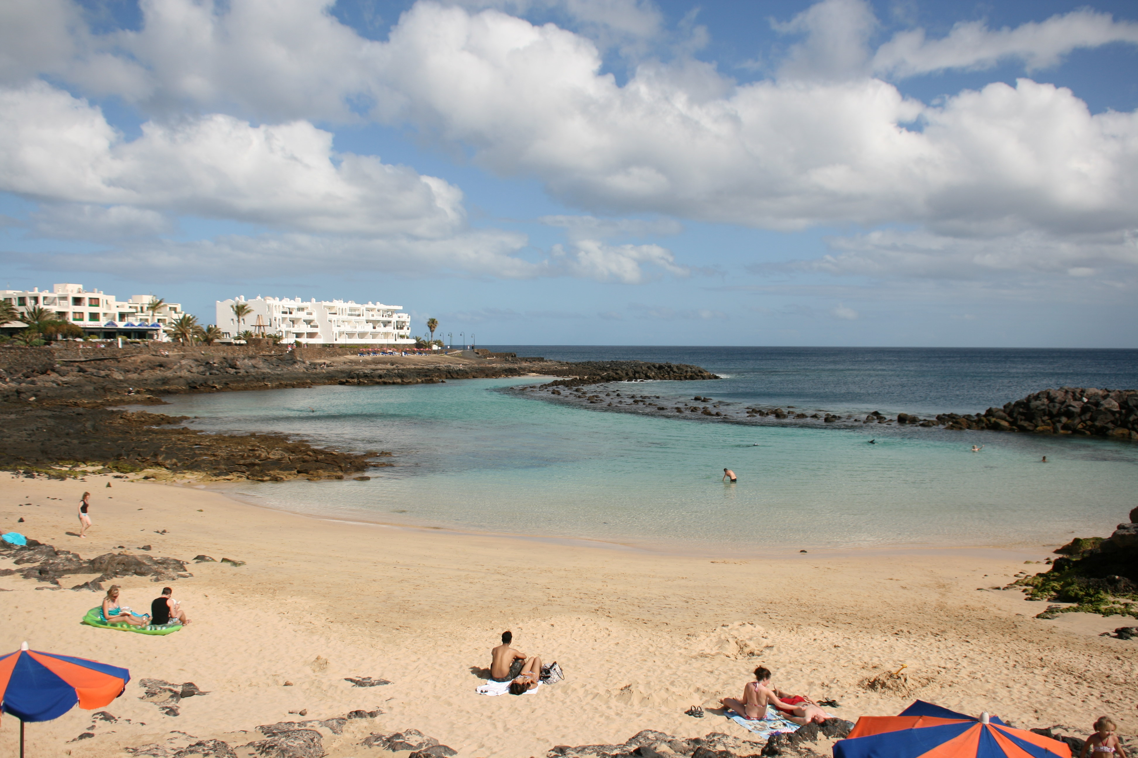 Playa del Jabillo, Avenida del Jablillo in Costa Teguise, Teguise, Lanzarote, Canary Islands